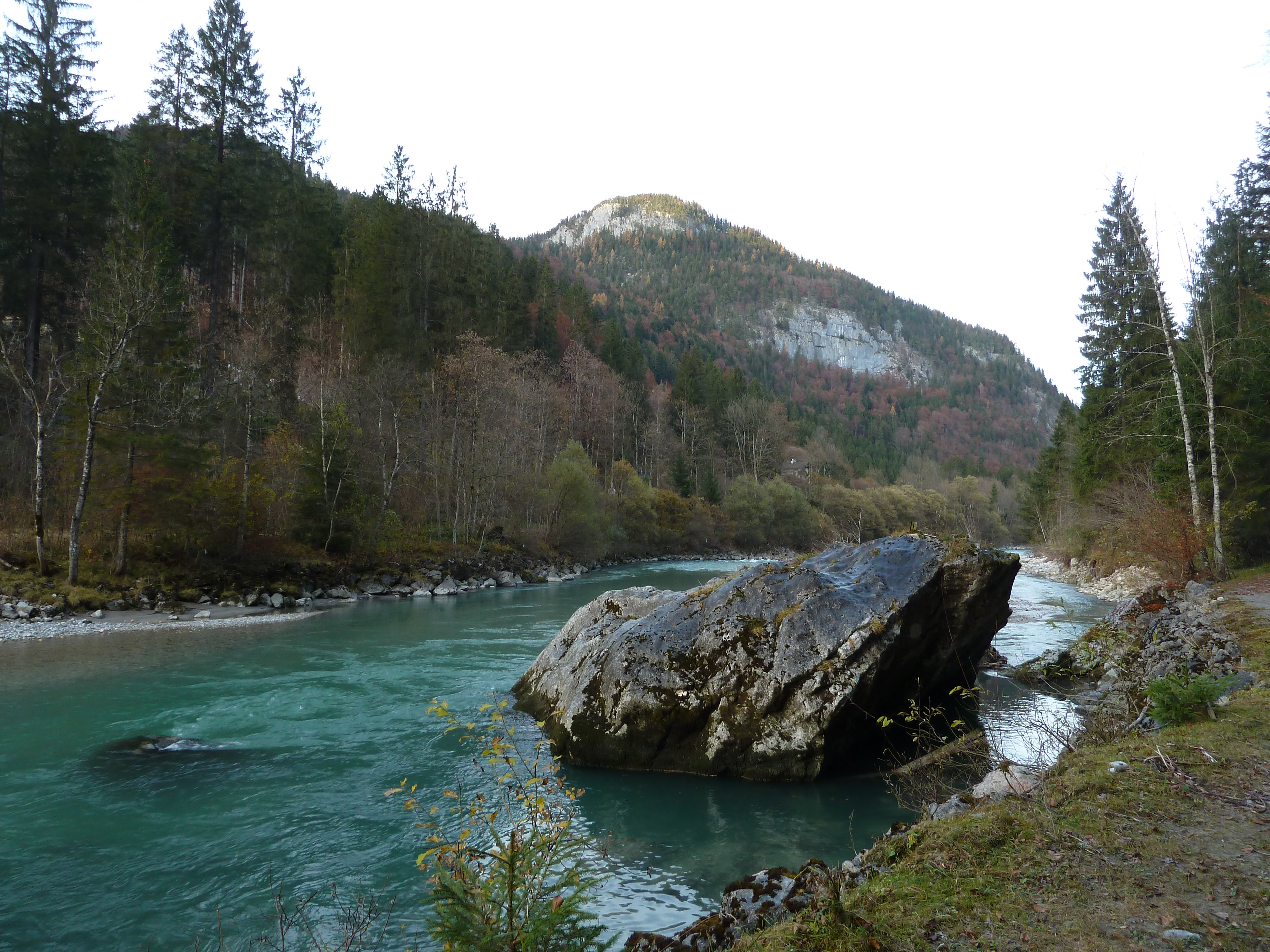 The river Saalach near Lofer, Salzburg (state), Austria.